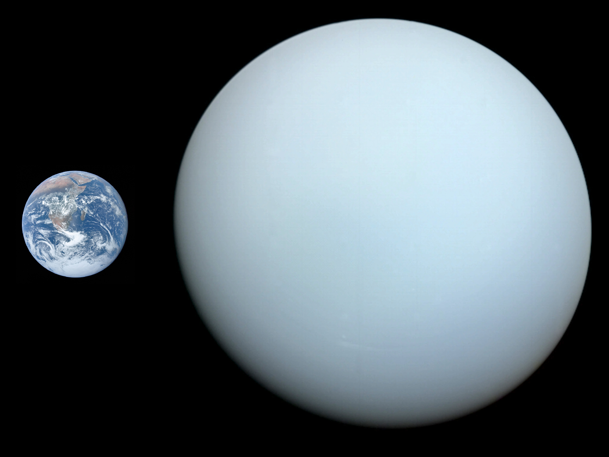 Diameter comparison of Uranus and Earth. Approximate scale is 90 km/px.